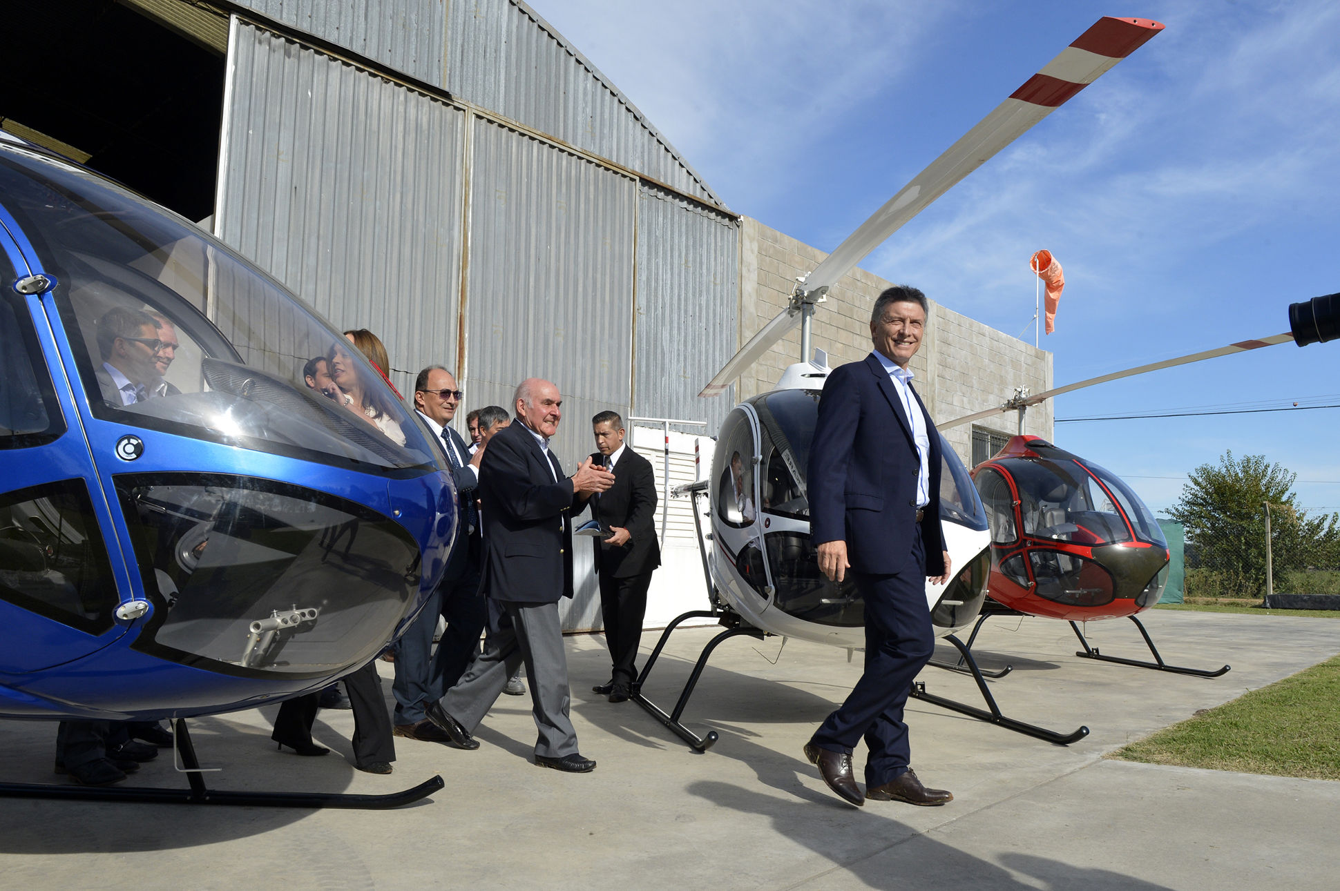 Argentina's president Mauricio Macri at the Cicaré helicopters factory in Saladillo.